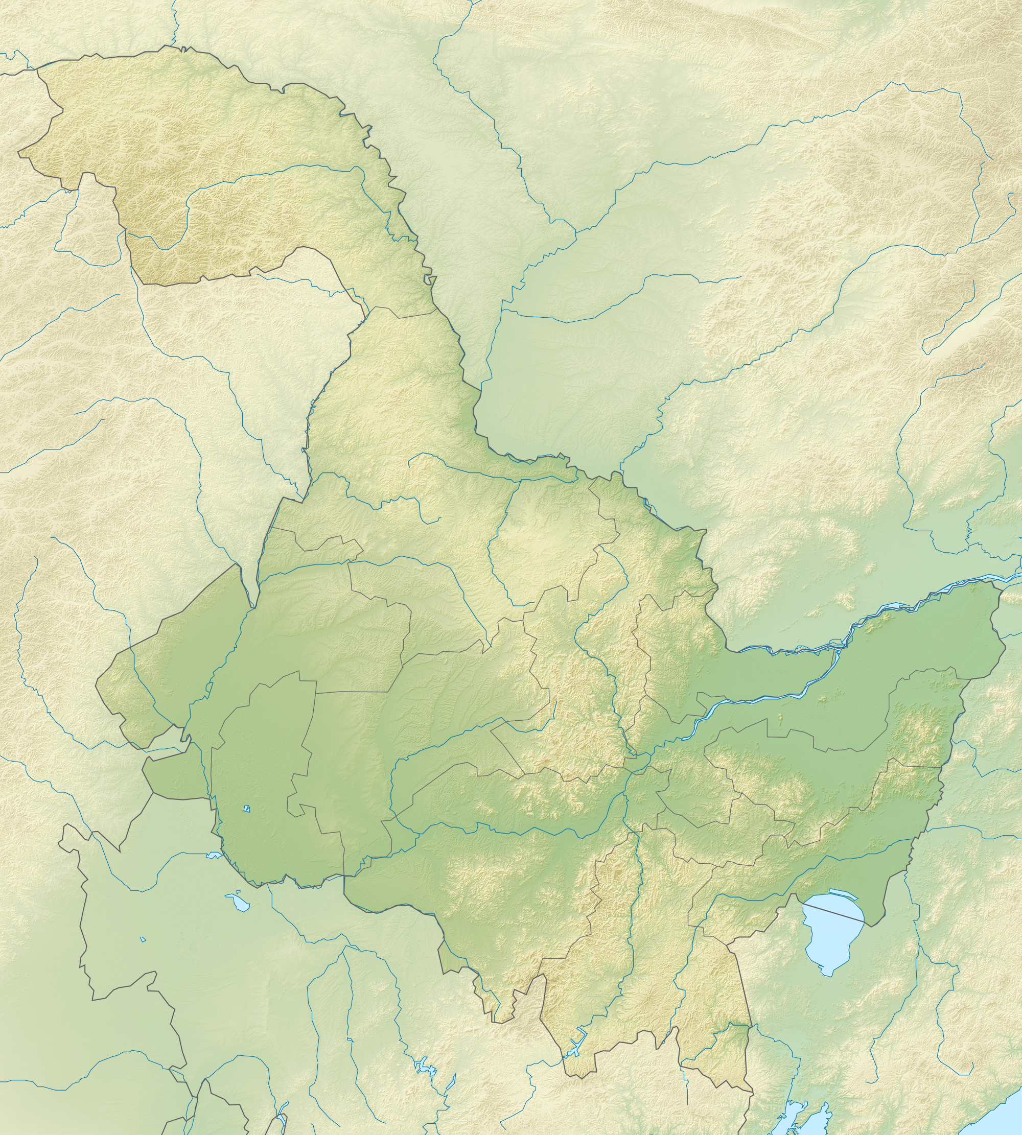 Location map of Heilongjiang, People's Republic of China Equirectangular projection, N/S stretching 141 %. True scale parallel: 45°00' N. Geographic limits of the map: N: 54.0° N S: 43.0° N W: 121.0° E E: 135.0° E